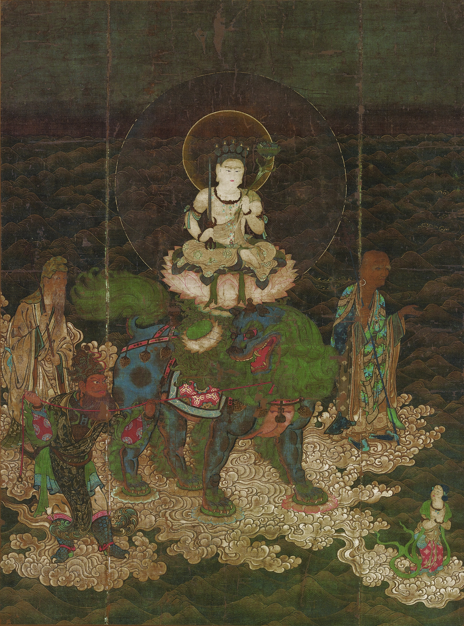 Monju crossing the sea (絹本著色文殊渡海図, kenpon chakushoku monju tokaizu). Hanging scroll, 143.0 cm × 106.4 cm. Color on silk. Located at Daigo-ji, Kyoto, Japan. The scroll has been designated as National Treasure of Japan in the category paintings.